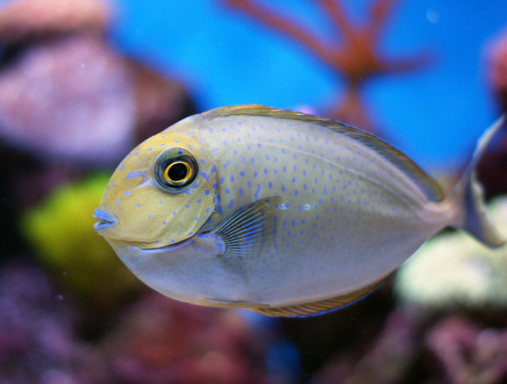 young Naso Vlamingi